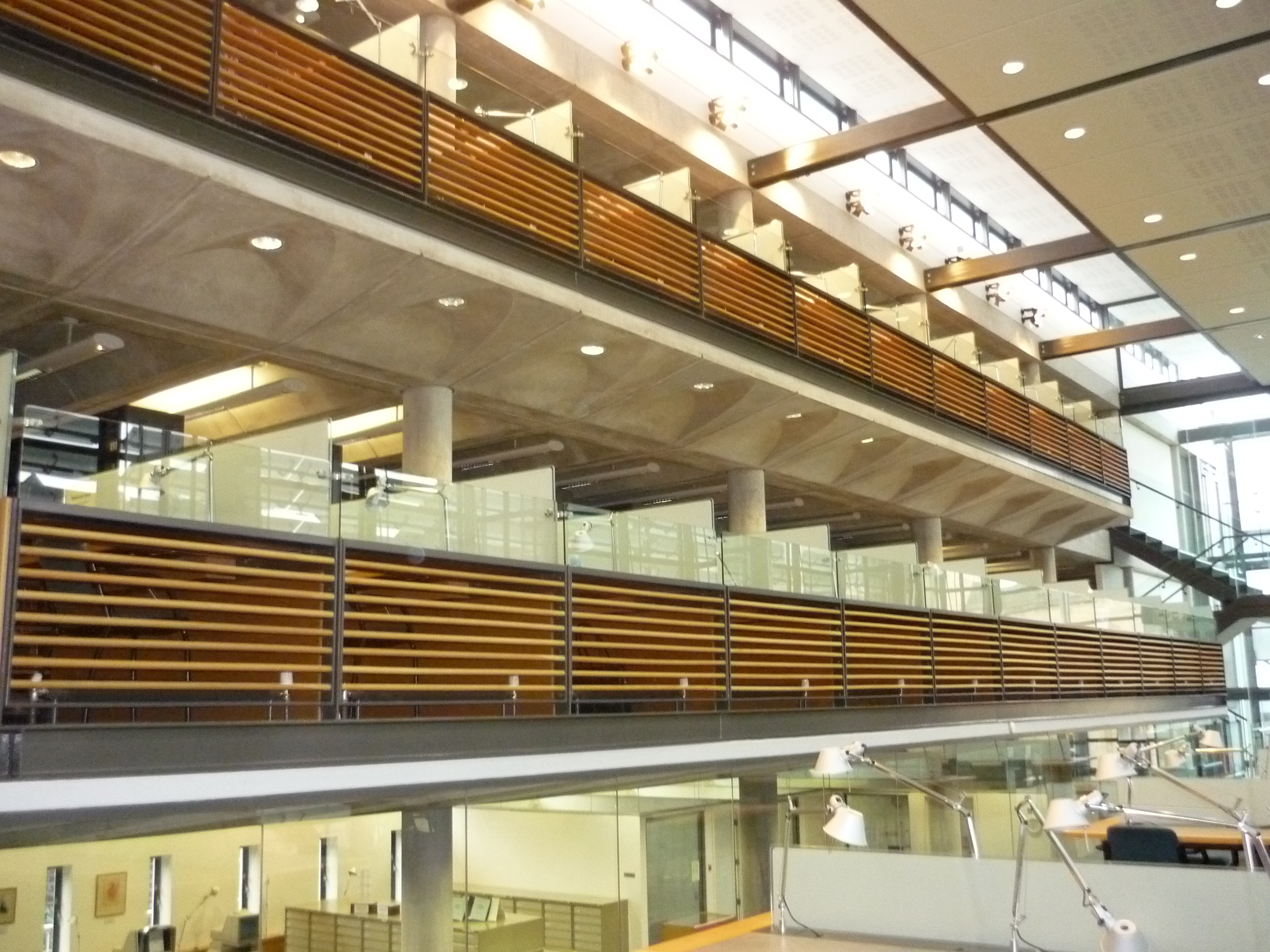 Interior photo of the Vere Harmsworth Library, Rothermere American Institute, University of Oxford, UK